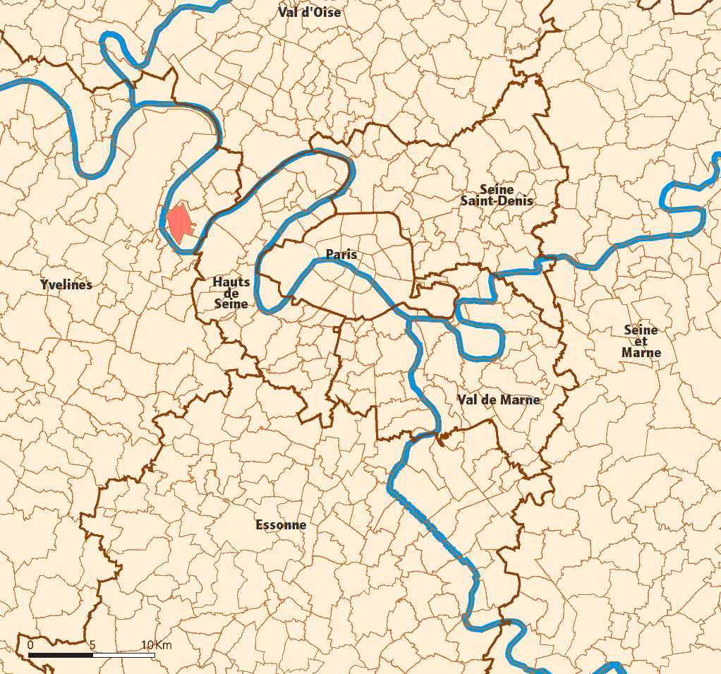 Created map myself.